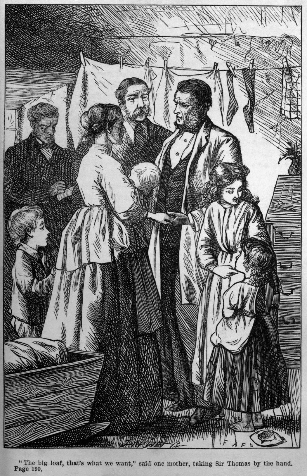 F. A. Fraser illustration, p. 190